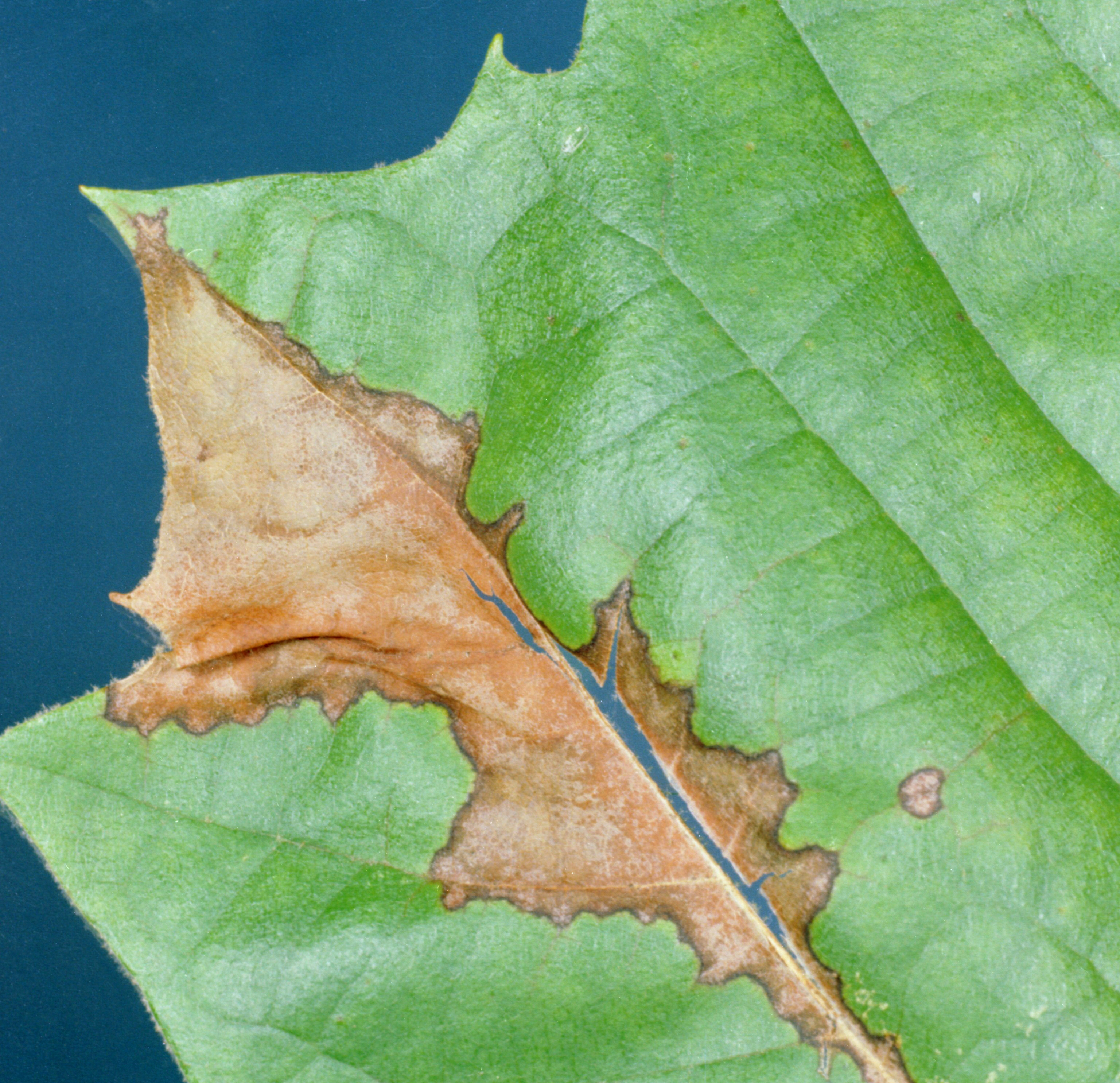 Symptoms of the fungal plant pathogen Apiognomonia veneta on the leaf of a Platanus occidentalis tree